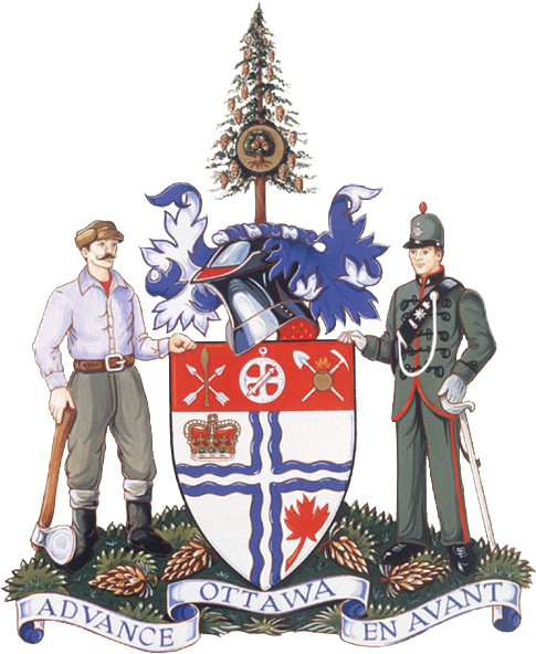 First granted by the College of Arms in 1954. Copyright expired in 2014, as Canadian government copyright lasts for 50 years after initial publication.